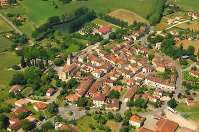 the village of francescas